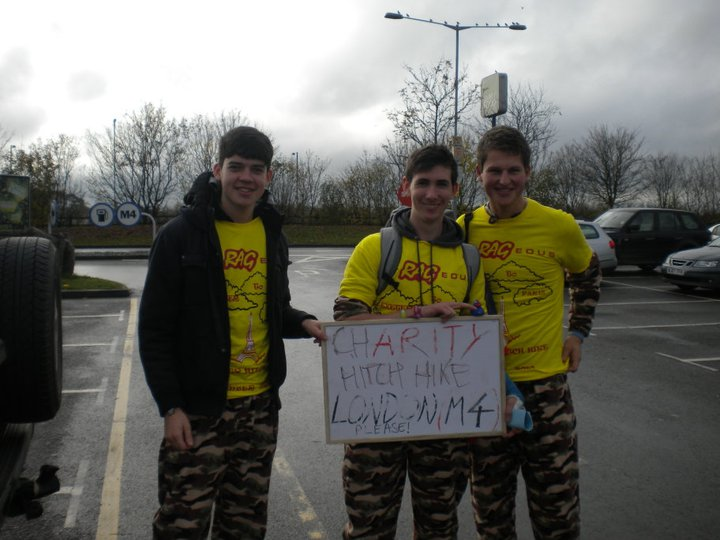 image from Exeter RAGs Charity Hitch Hike in November 2010